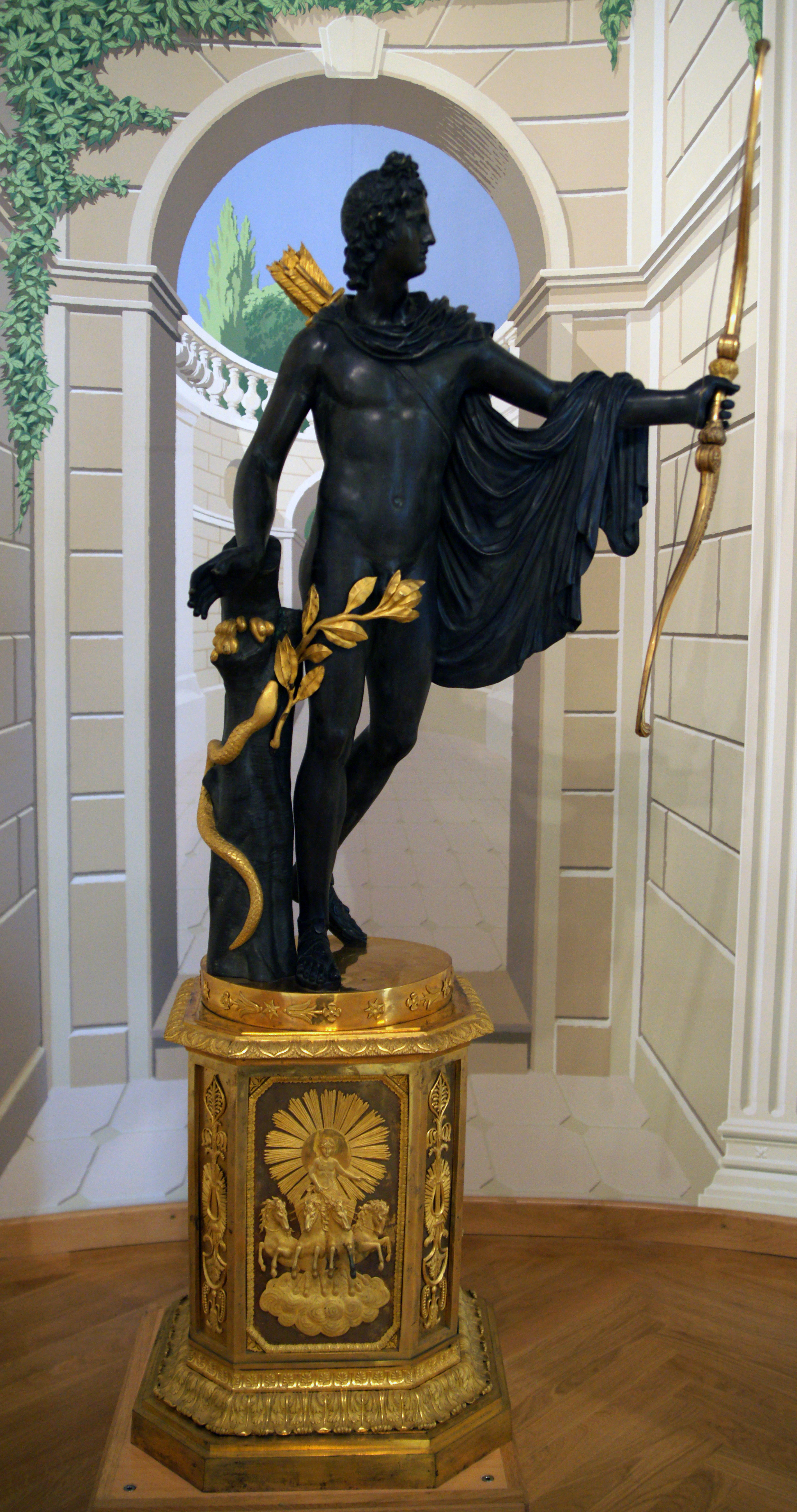 Sculpture of Apollo